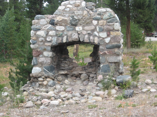 Chimney at Leeks Lodge tourist camp, Grand Teton National Park, Wyoming USA